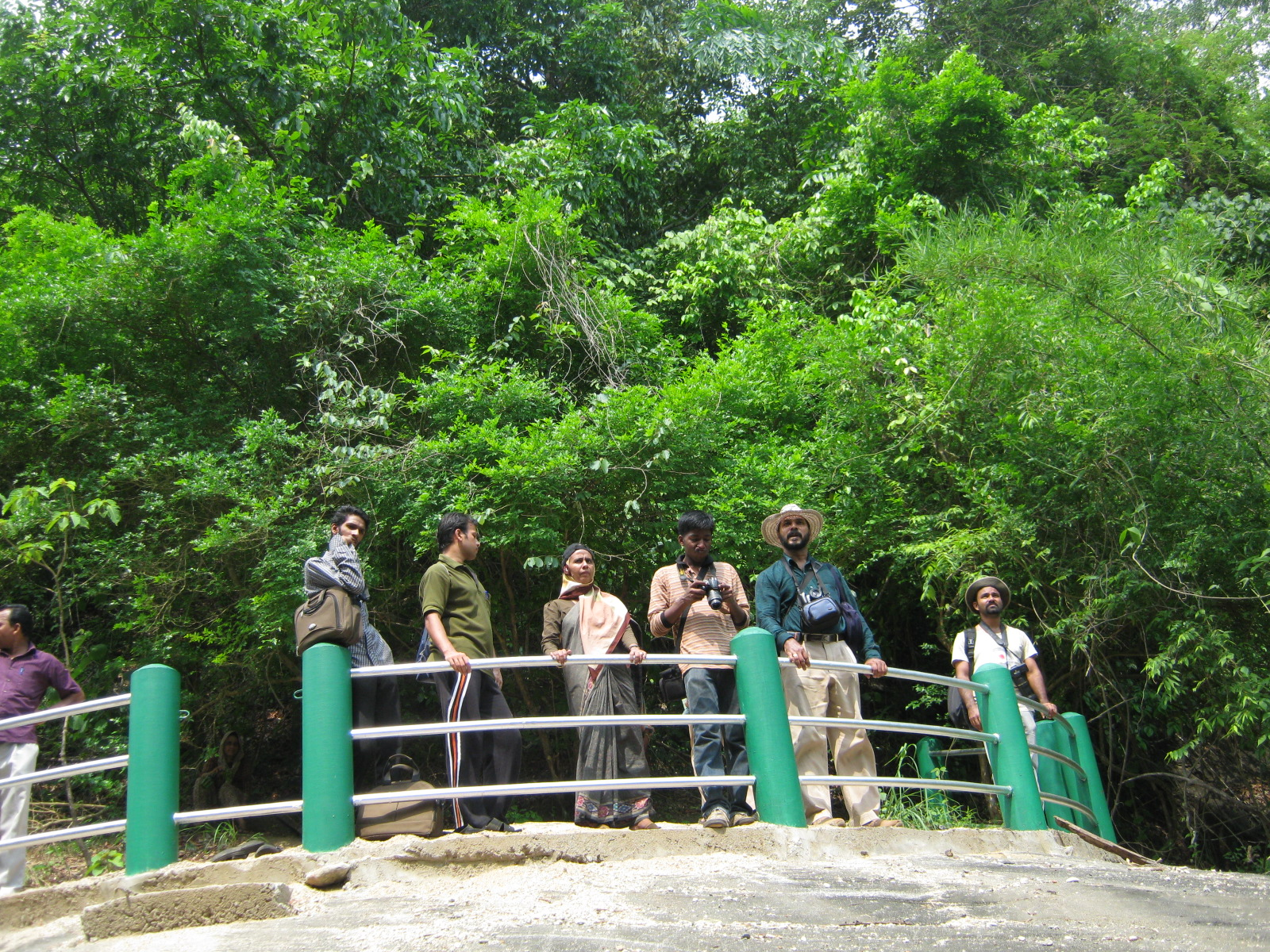 Muyalpara viewpoint